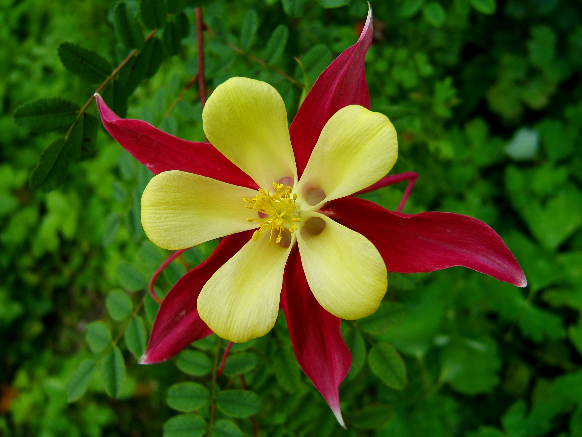 Hybrid columbine ·